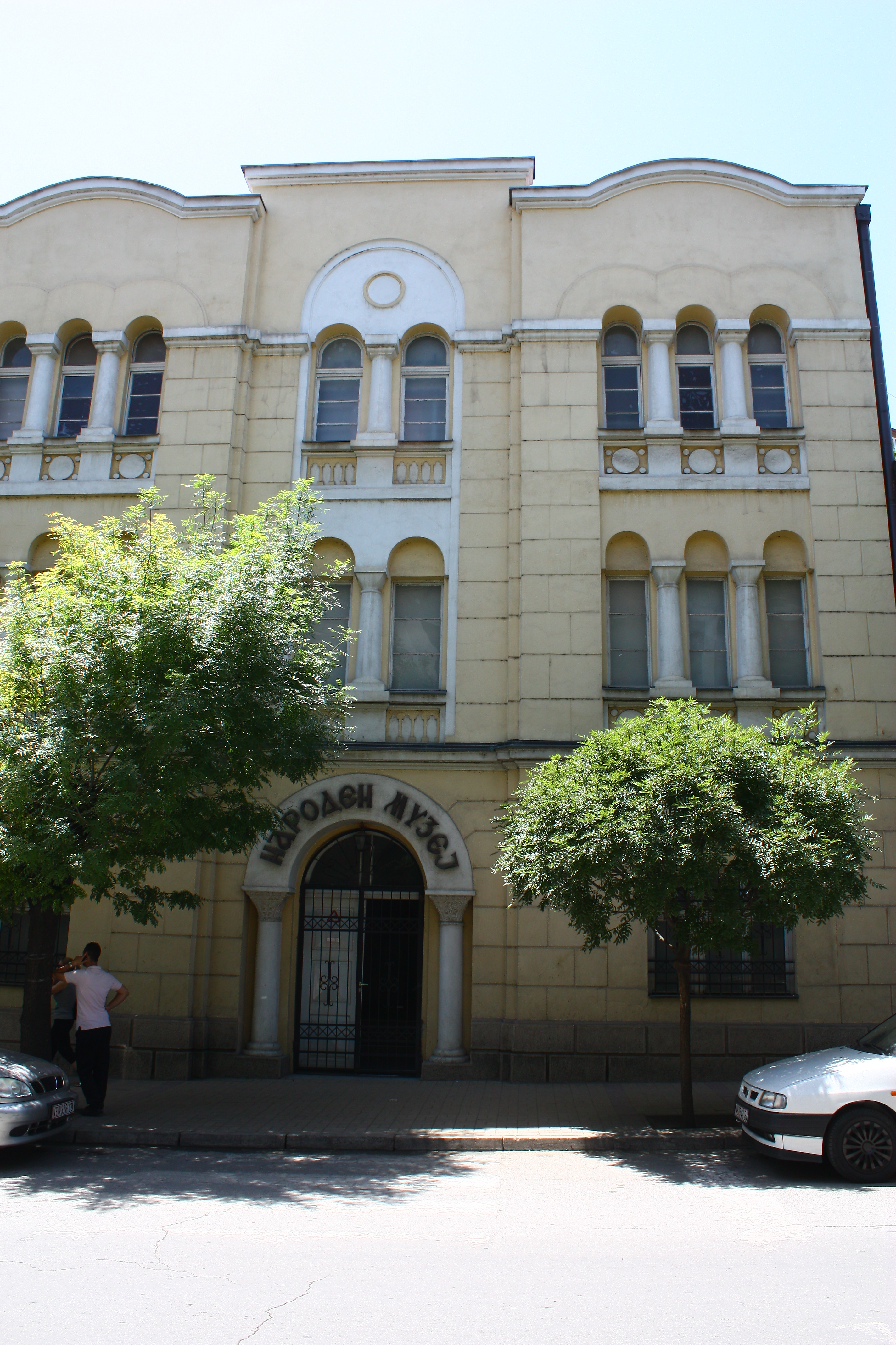 National Museum in Veles, Macedonia